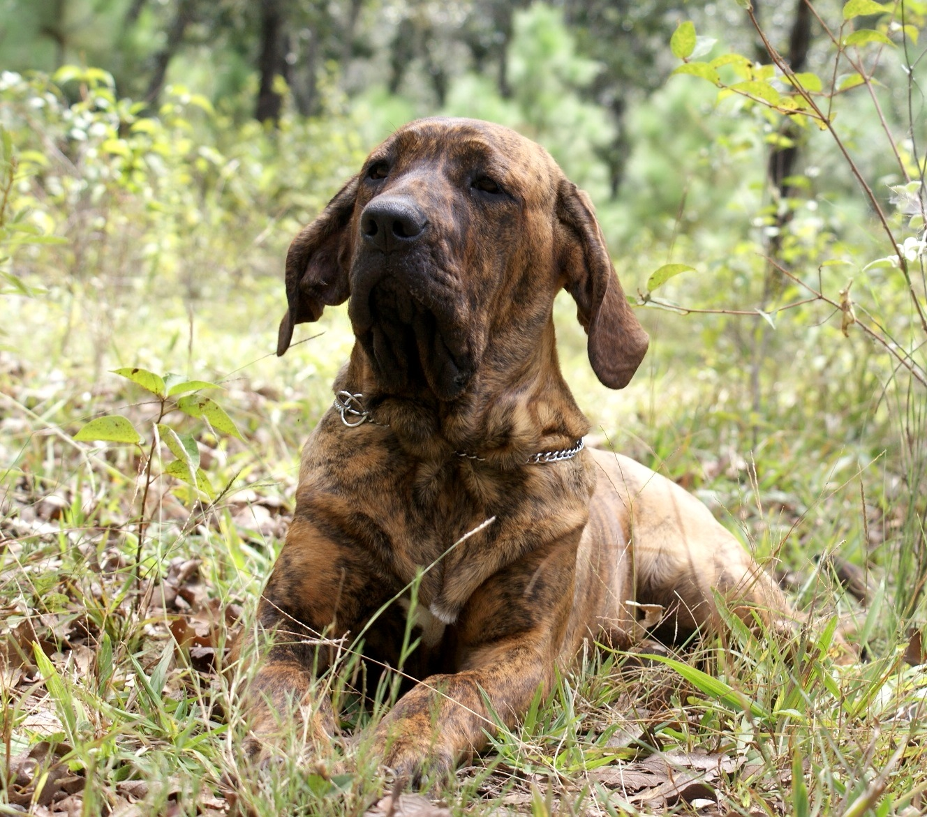 Fila Brasileiro (female) 8 months old name: kalimba owner: alejandro weber